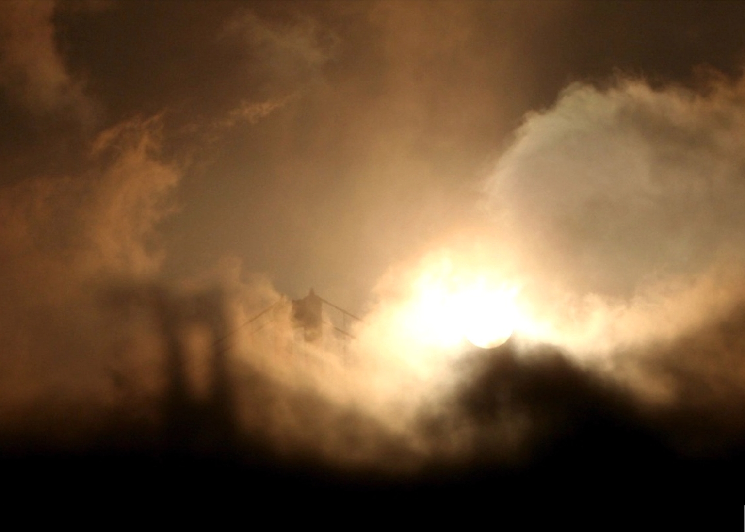 Fog shadow of Golden Gate Bridge San Francisco.